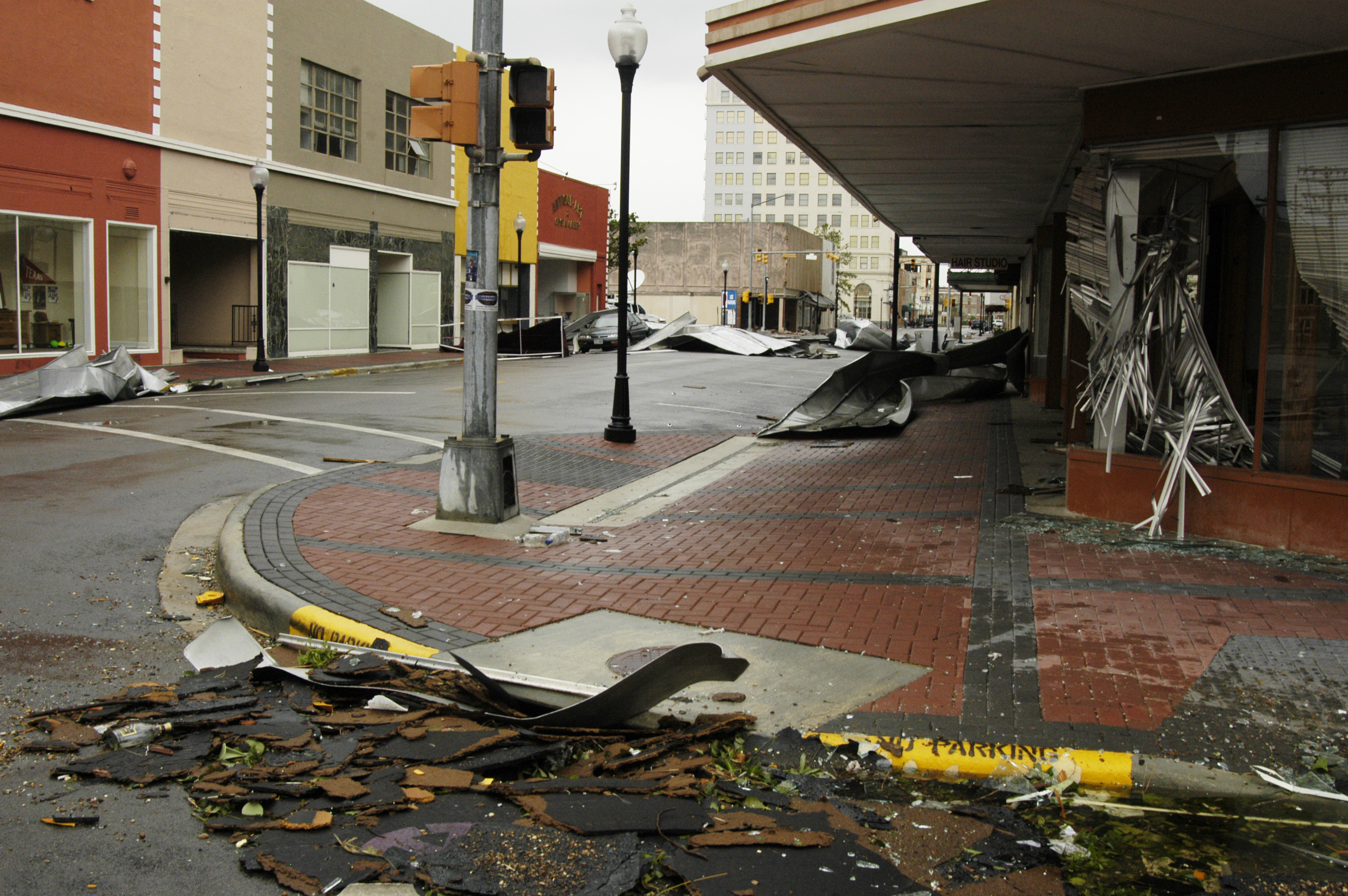 Beaumont, TX, 9/24/05 -- The debris on the street and the damage to the store fronts is the result of winds from hurricane Katrina. Downtown Beaumont was in the path of hurricane Rita. Liz Roll/FEMA